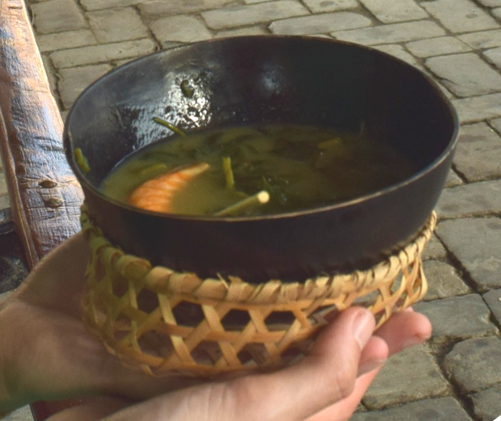 Tacacá, a soup common to nothern Brazil, served in a traditional cuia. Picture taken in Manaus, Brazil.